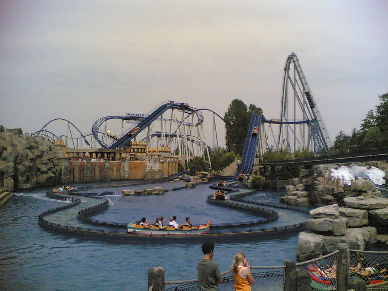 Poseidon, Europa-Park, Rust, Baden-Württemberg, Germany.